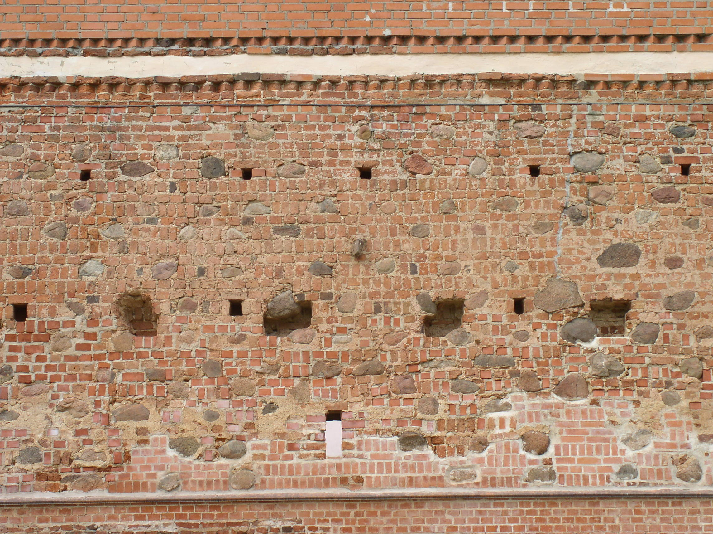 Castle, Mir, Belarus.